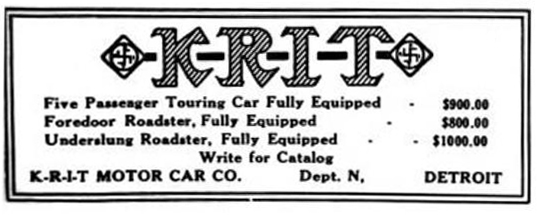 K-R-I-T Motor Car Company of Detroit, Michigan - advertisement - 1912